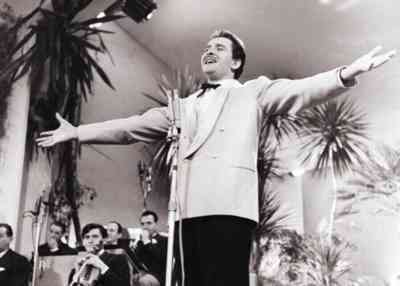 Modugno sings "Volare" at Festival della Canzone Italiana